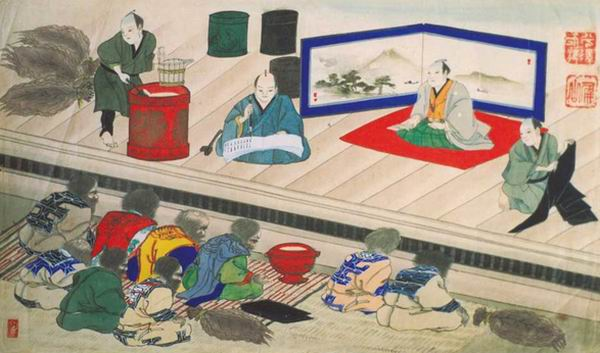 "Ainu omusha ceremony" by Hirasawa Byozan. Watercolor. 1871